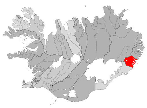 Based on Municipalities of Iceland.png.